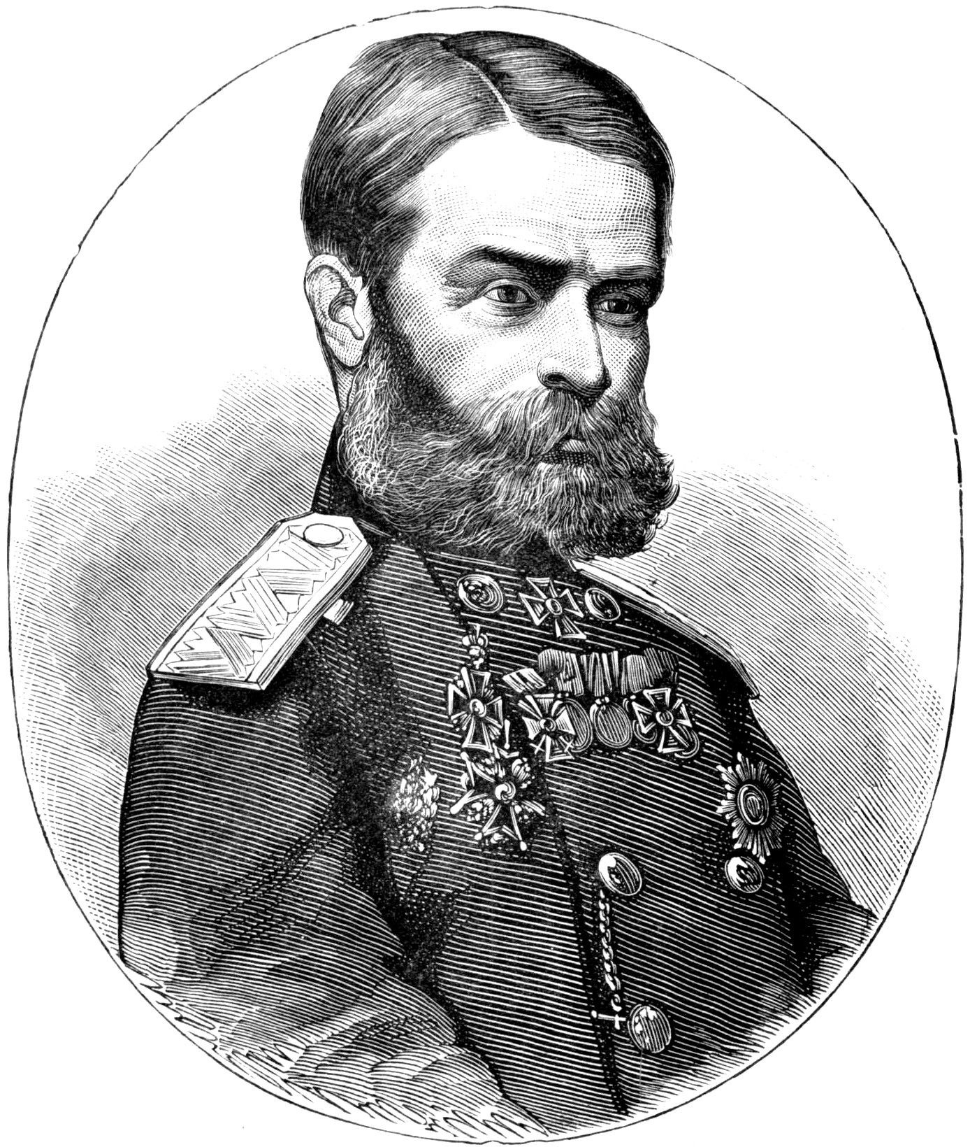 Drozhinsky, Valerian Filippovitch, (1826-1877) major general.